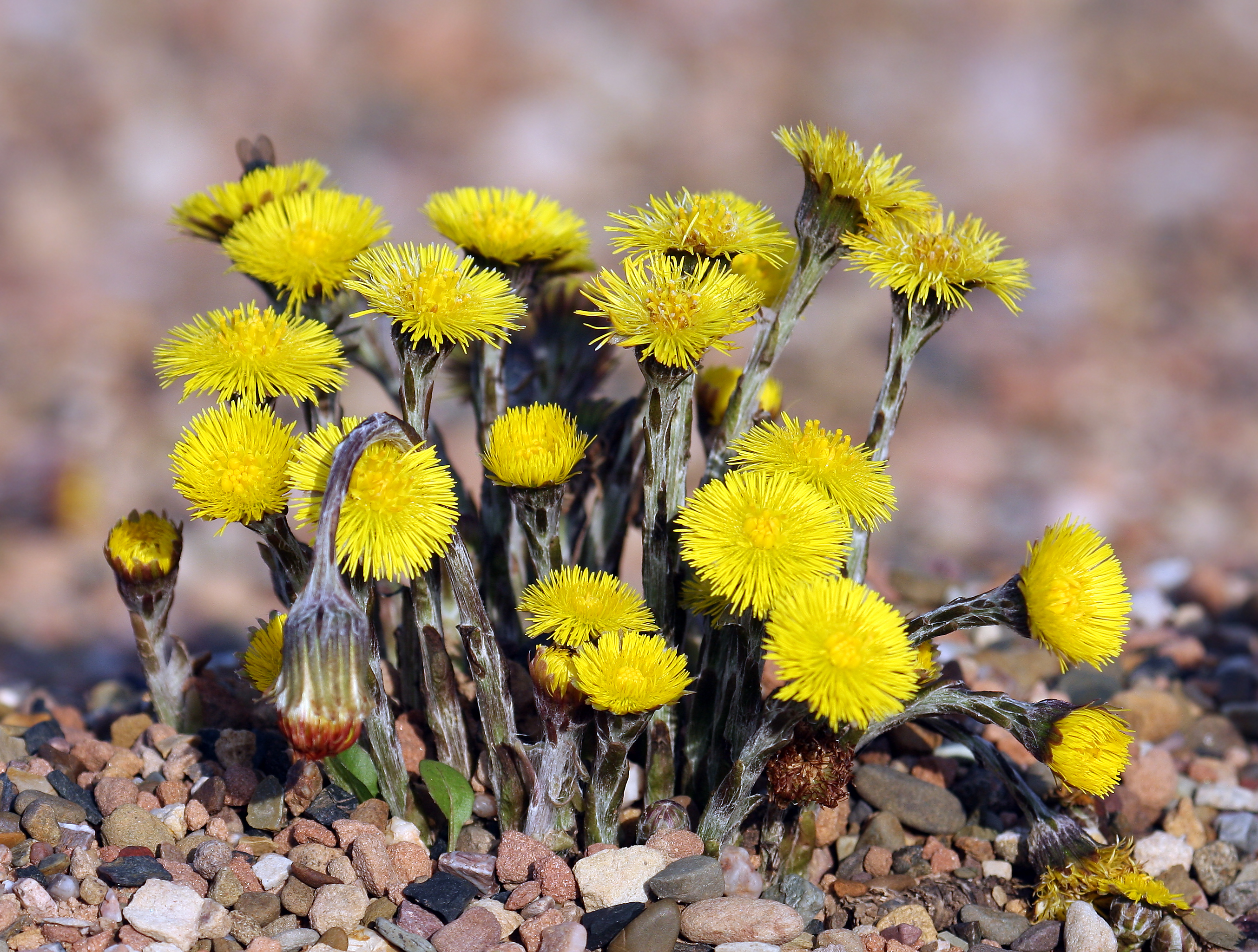 Coltsfoot